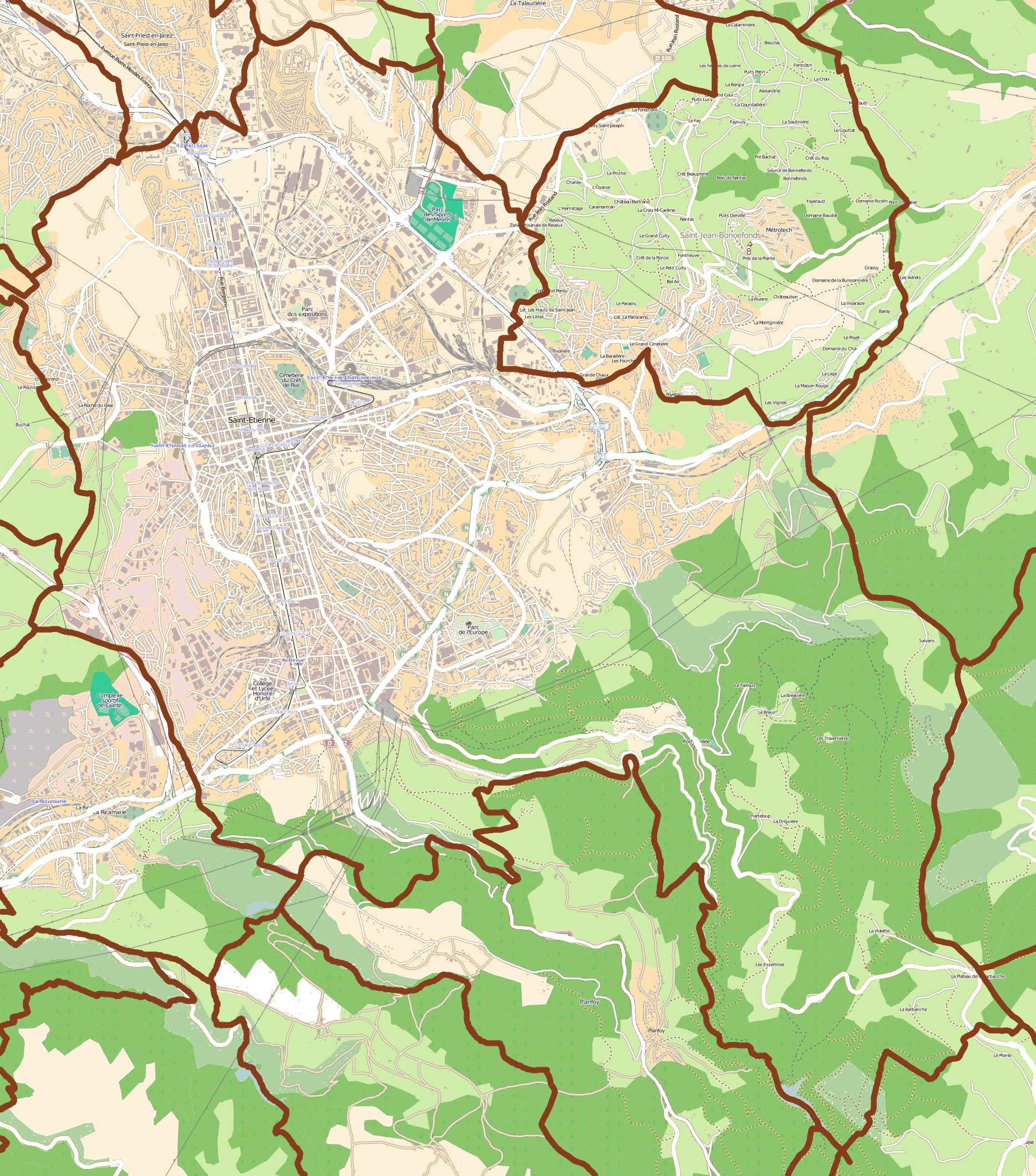 Map of Saint-Etienne, France